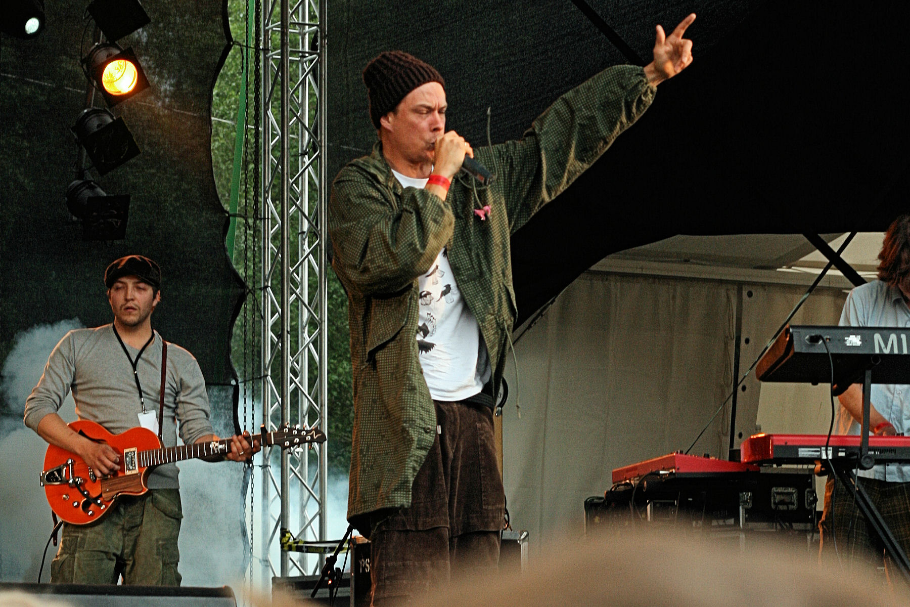 Puppa J performing with Raappana at Ilosaarirock festival 2008.